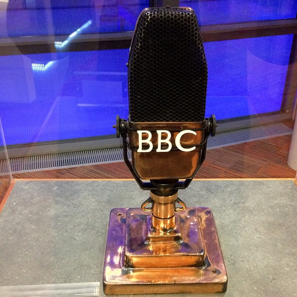 BBC AXBT Microphone The iconic BBC microphone. Designed in 1944, and formally called the AXBT microphone, this was the first high-quality microphone studio use. It became an iconic symbol of the BBC.